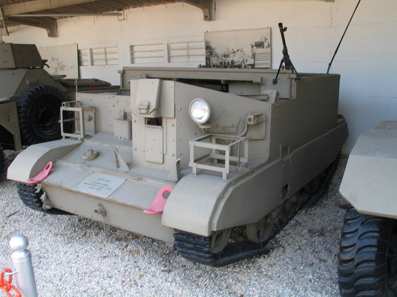 Description: Universal carrier (Bren carrier) in Batey ha-Osef museum, Tel Aviv, Israel. 2005. Source: Photo by me, User:Bukvoed.